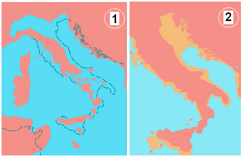 Adriatic Sea: 1) Pliocene epoch and 2)Diluvium epoch.